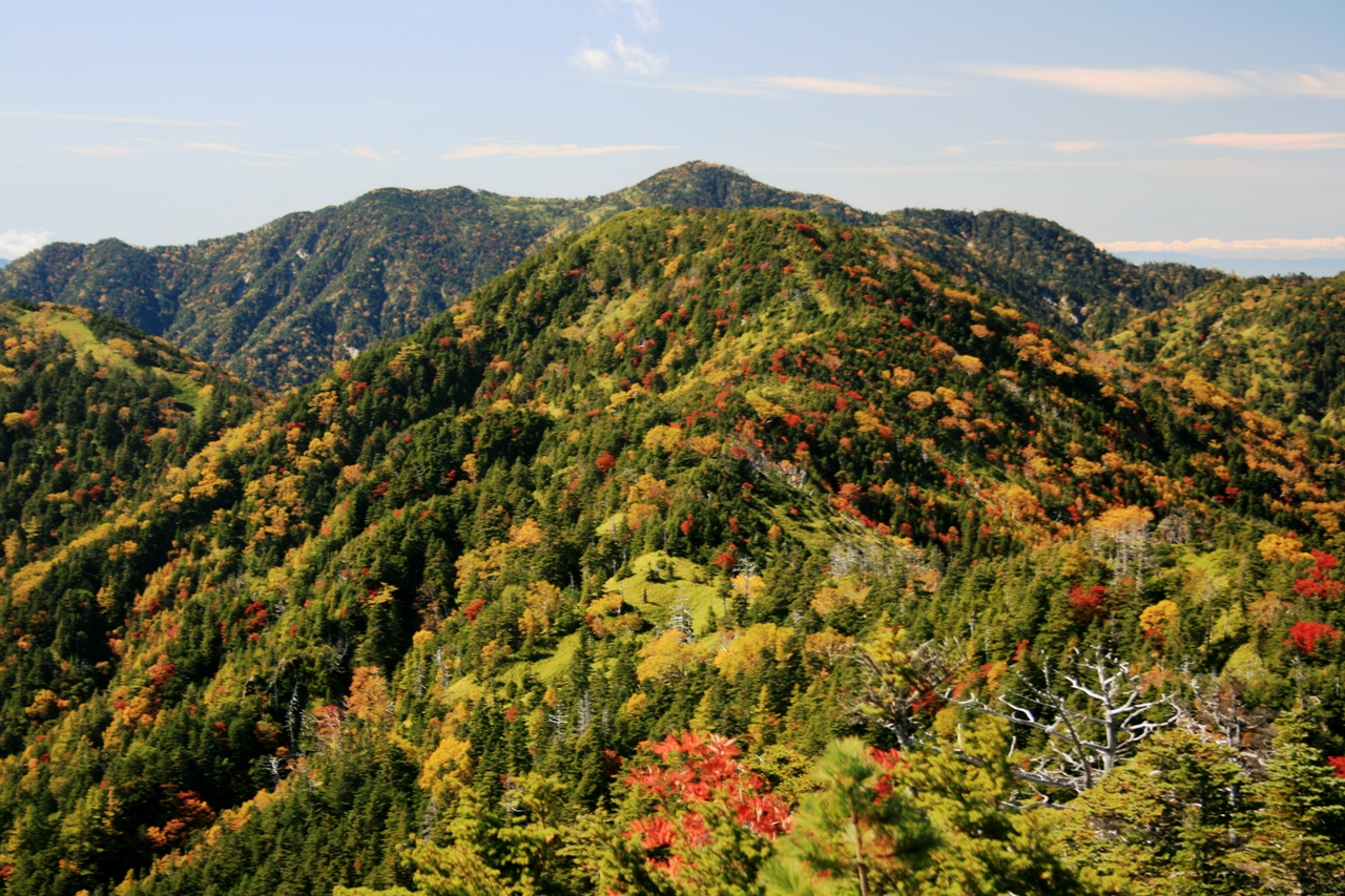 Nenjodake_from_Ikenodairayama_2010-10-11